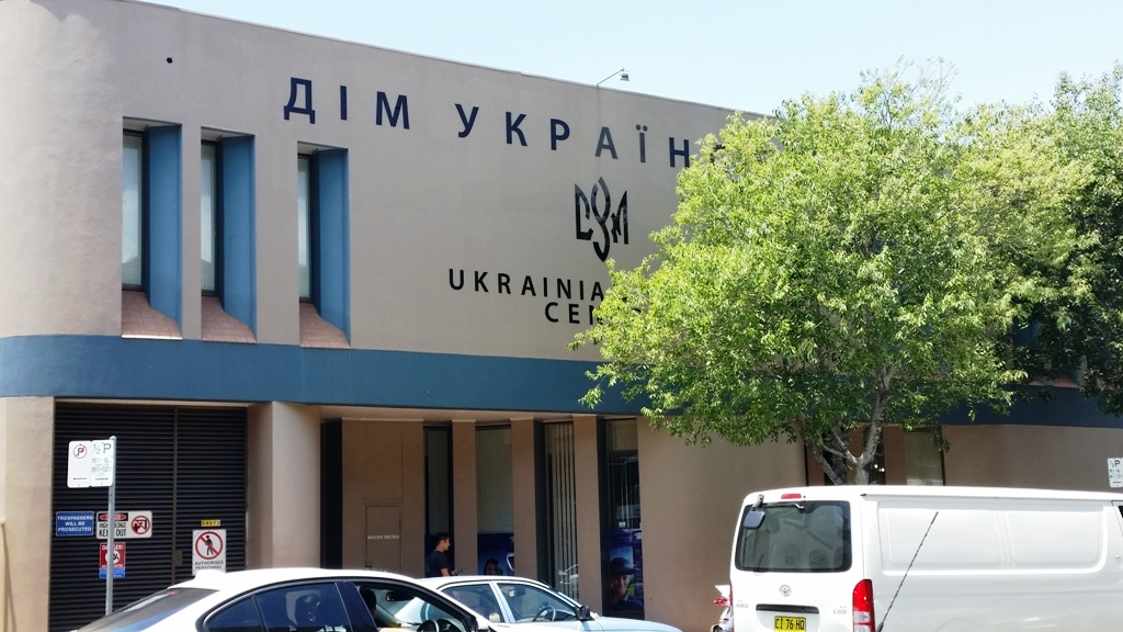 Ukrainian Youth Centre, front, Sydney, 2016